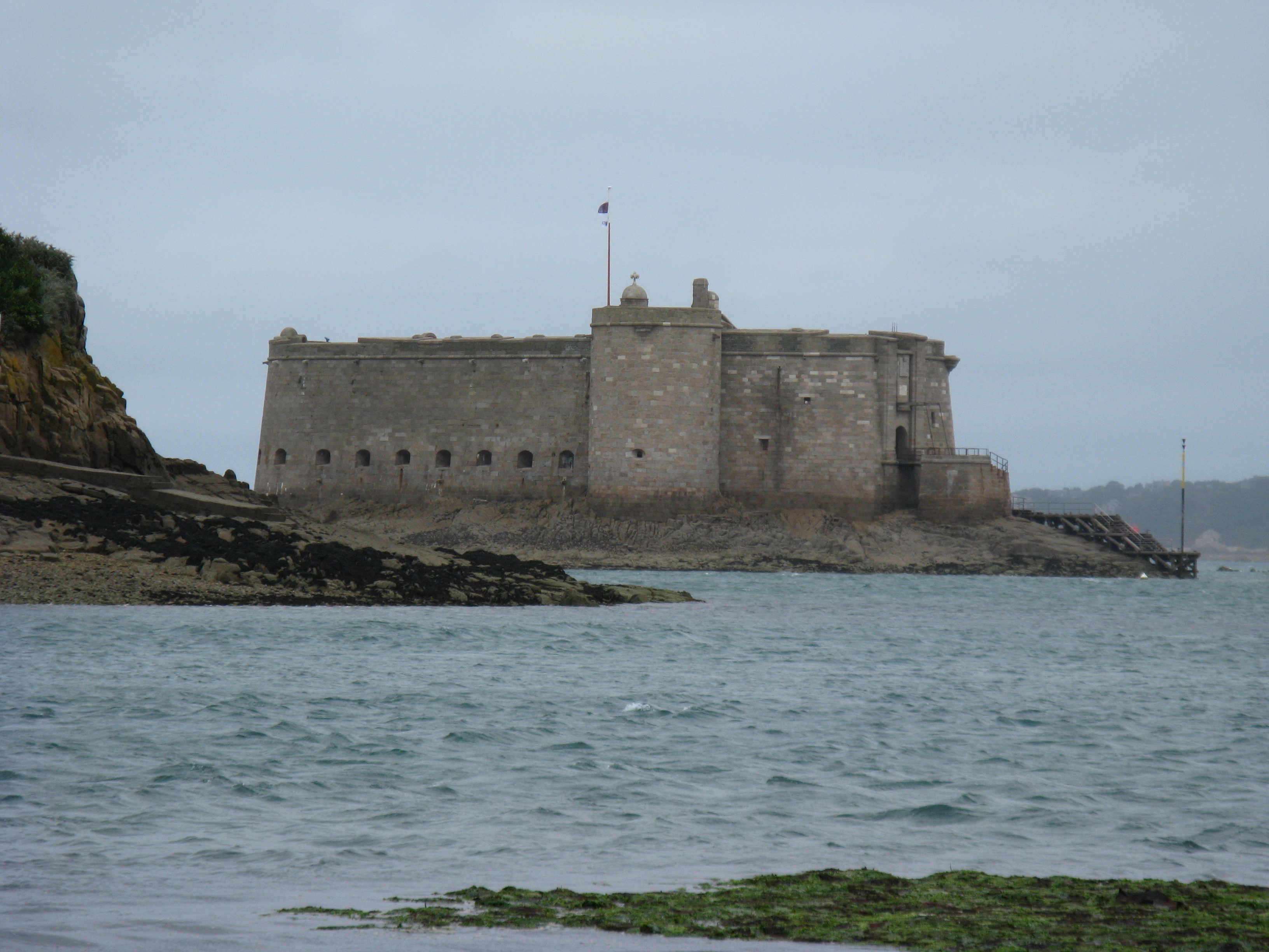 The "château du Taureau" in the Morlaix bay